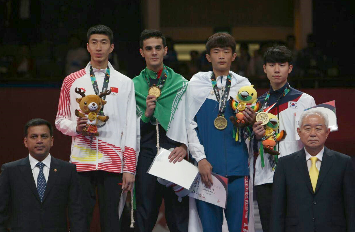 Taekwondo at the 2018 Asian Games – Men's 63 kg podium